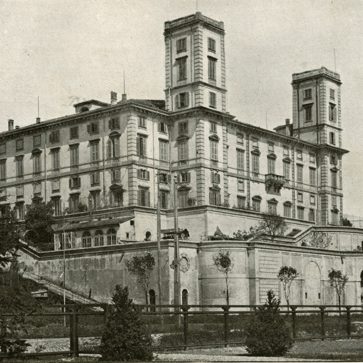 The file shows the Mombello Asylum on a stamp from the 1860s, the picure can be viewed in the historical Archives of the university of Milan-bicocca library